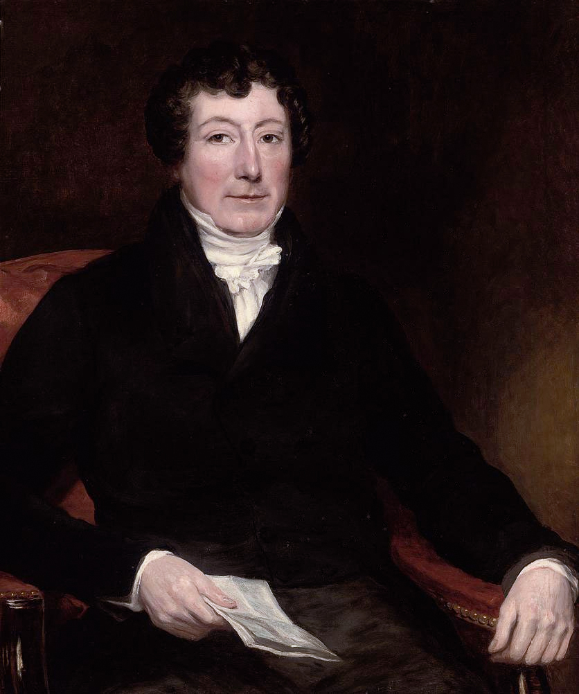 Portrait of Sir Robert Fitzwygram, 2nd Baronet, F.R.S. (1773-1843), Director of the Bank of England and Tory politician, seated in an armchair, in a black coat and white stock, holding a document oil on canvas 99.7 x 80.7 cm.